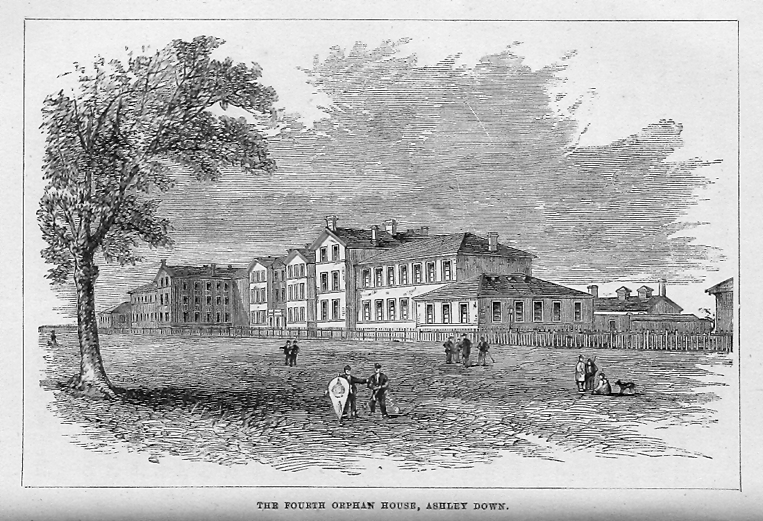 line drawing of New Orphan House No 4